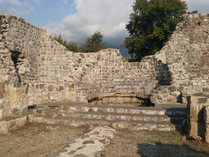 Dolochopi basilica. 4th-5th century ruins in Kakheti, Georgia. Altar apse and synthronion.